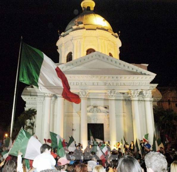 Italian Paraguayan community in front of Panteón de los Héroes in Asunción